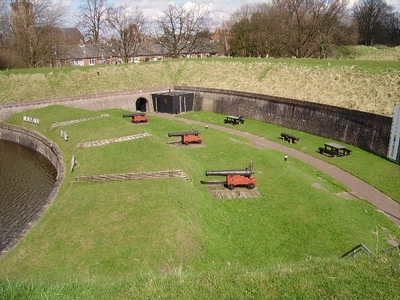 Casemates at fortified city Naarden